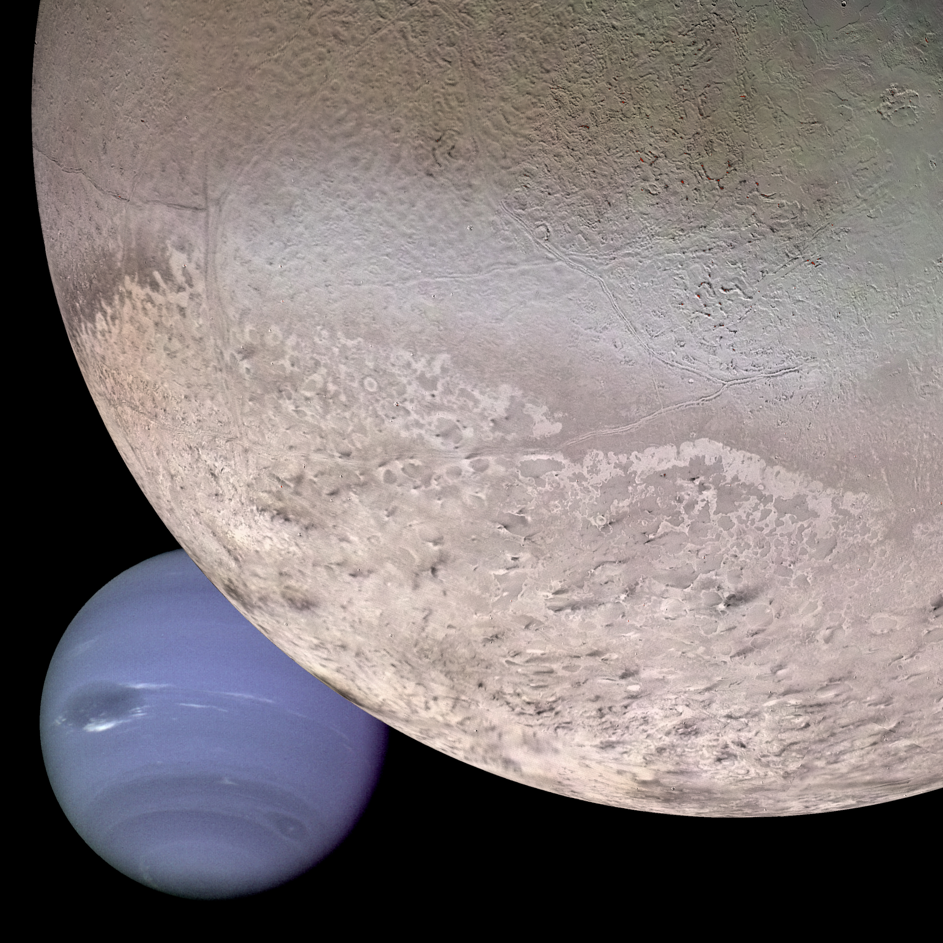 This computer generated montage shows Neptune as it would appear from a spacecraft approaching Triton, Neptune's largest moon at 2706 km (1683 mi) in diameter. The wind and sublimation eroded south polar cap of Triton is shown at the bottom of the Triton image, a cryovolcanic terrain at the upper right, and the enigmatic "cantaloupe terrain" at the upper left. Triton's surface is mostly covered by nitrogen frost mixed with traces of condensed methane, carbon dioxide, and carbon monoxide. The tenuous atmosphere of Triton, though only about one hundredth of one percent of Earth's atmospheric density at the surface, is thick enough to producewind-deposited streaks of dark and bright materials of unknown composition in the south polar cap region. The southern polar cap was sublimating at the time of the Voyager 2 flyby, as indicated by the irregular and eroded appearance of the edge of the cap.